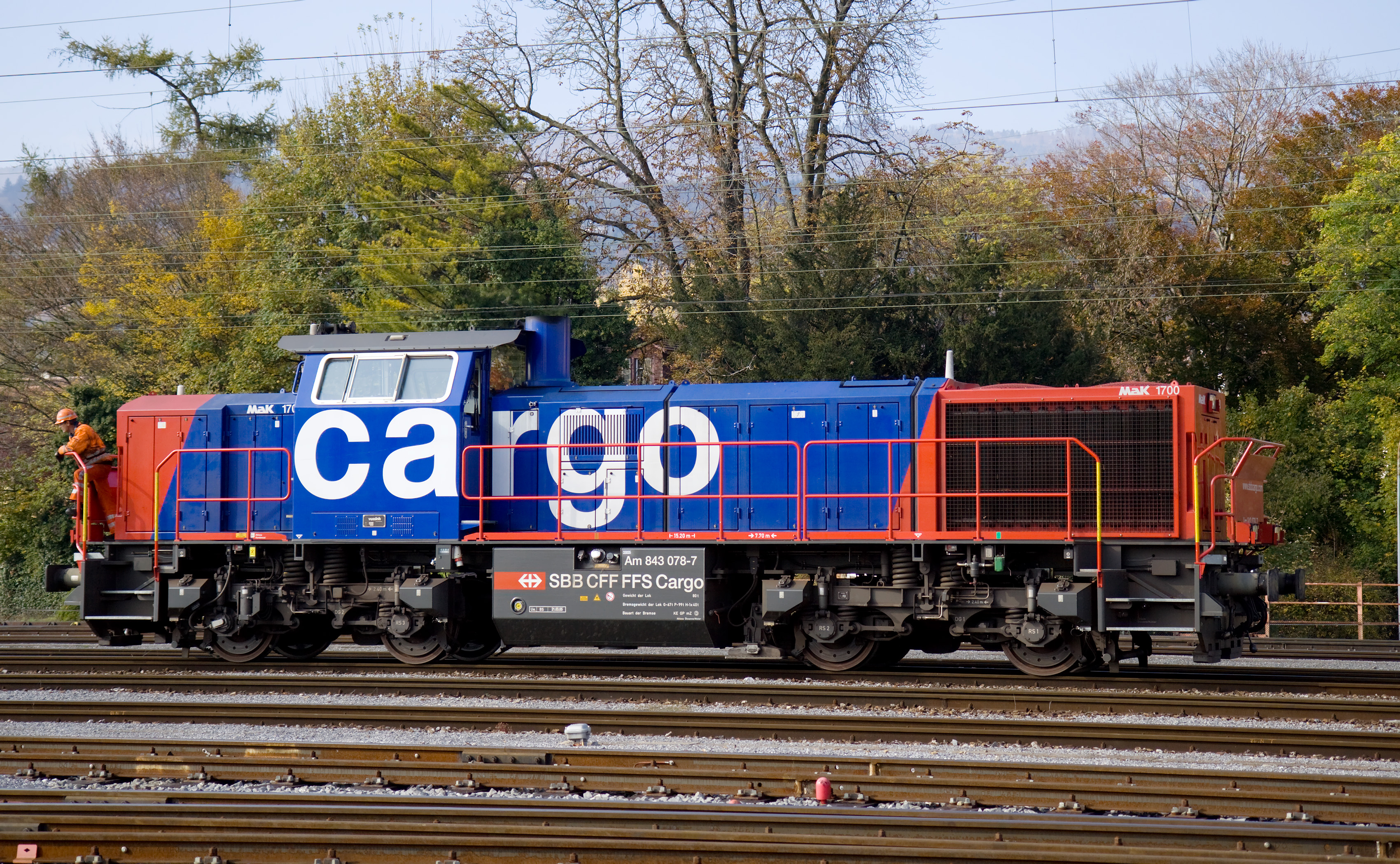 SBB-CFF-FFS Am 843 (G 1700-2 BB) shunting in Biel